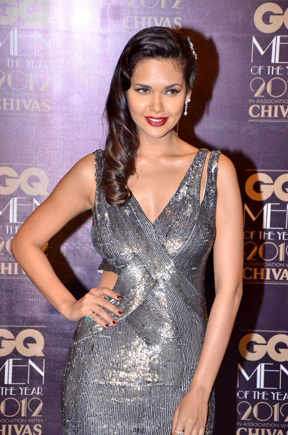 Esha Gupta for GQ Men of the Year 2012